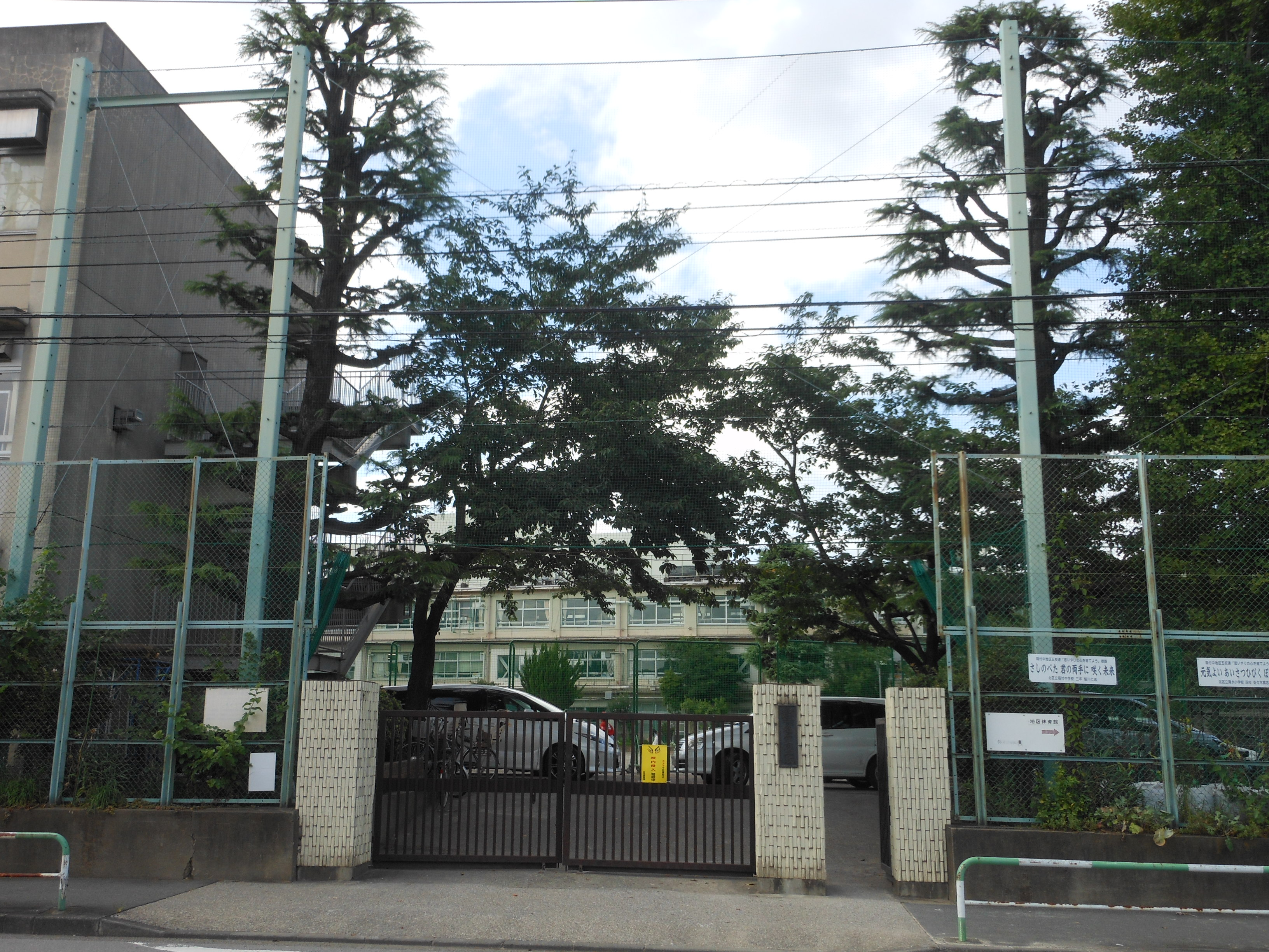 This is the Kita city Inatsuke junior high school's main gate in Akabanenishi, Kita, Tokyo, Japan.